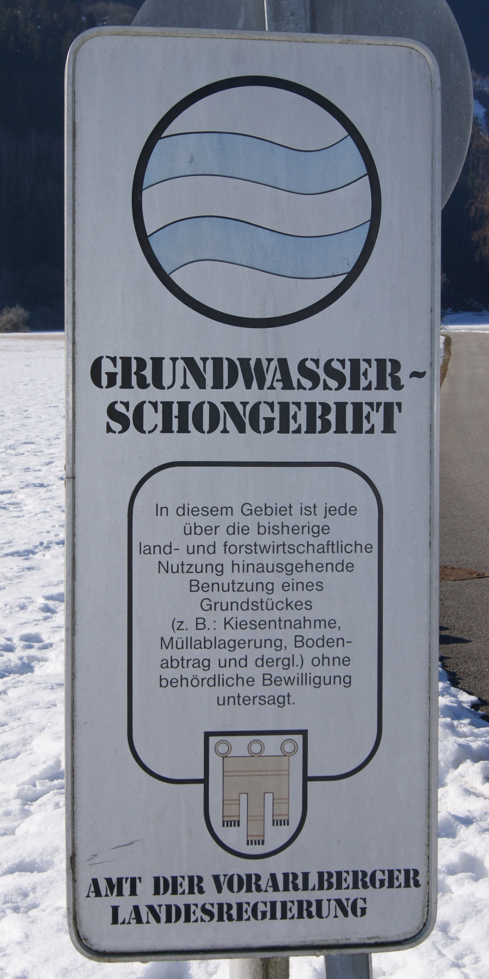 Frastanzer Ried (bog) in Frastanz, Vorarlberg, Austria. Shield Groundwater Sanctuary.